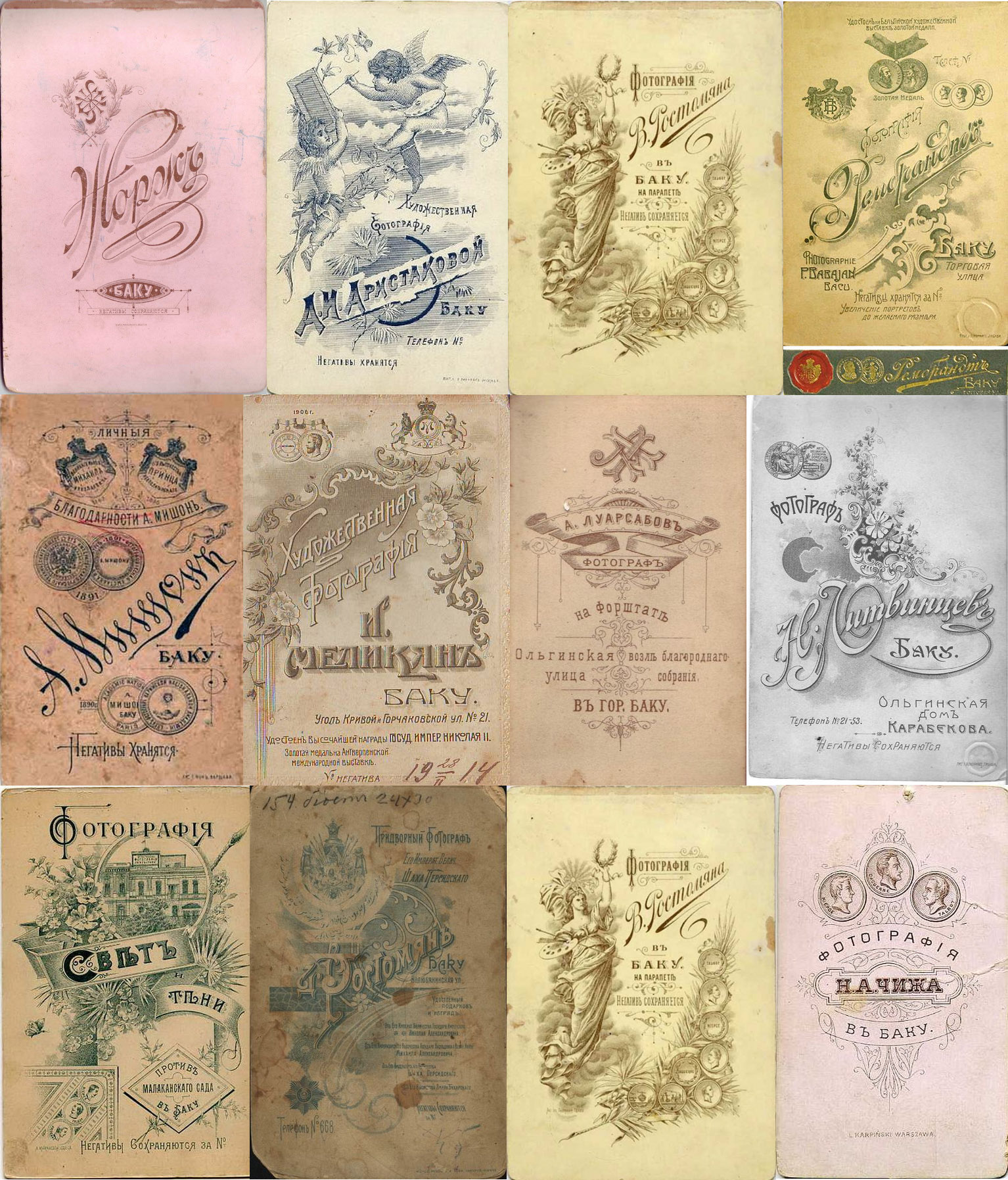 Labels of some of Baku based photo workshops working before 1917